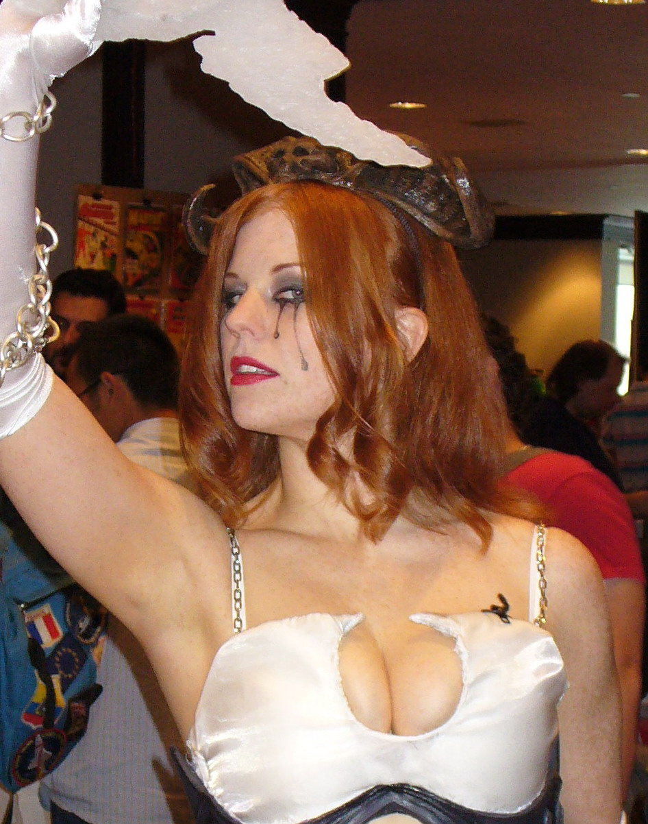 Liana K, cohost of Ed's Night Party, at the 2008 Paradise Toronto Comicon dressed as Joseph Michael Linsner's Dawn